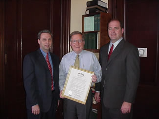 On May 9, 2001, members of Kentucky's General Assembly presented Senator McConnell with a resolution requesting that he support President Bush's tax relief proposal. Featured in the photo from left to right: State Senator Richie Sanders, Senator McConnell, and State Representative Jeff Hoover.